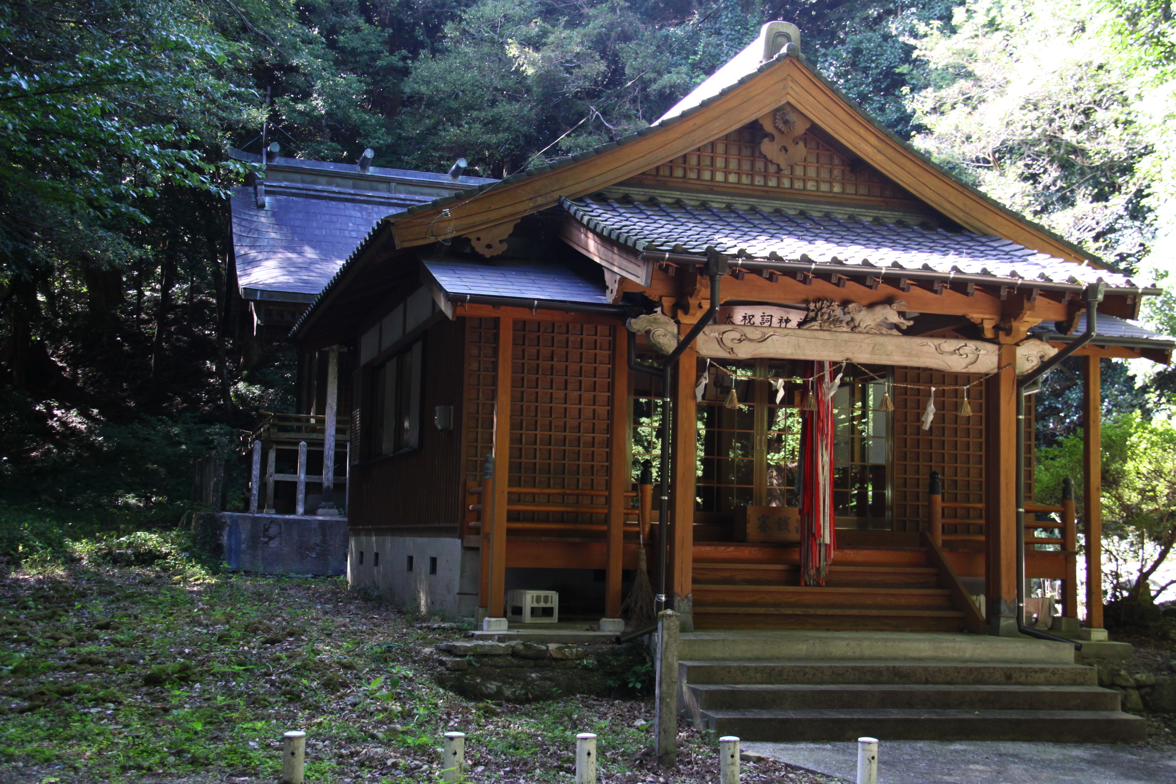 Futonorito jinja Haiden